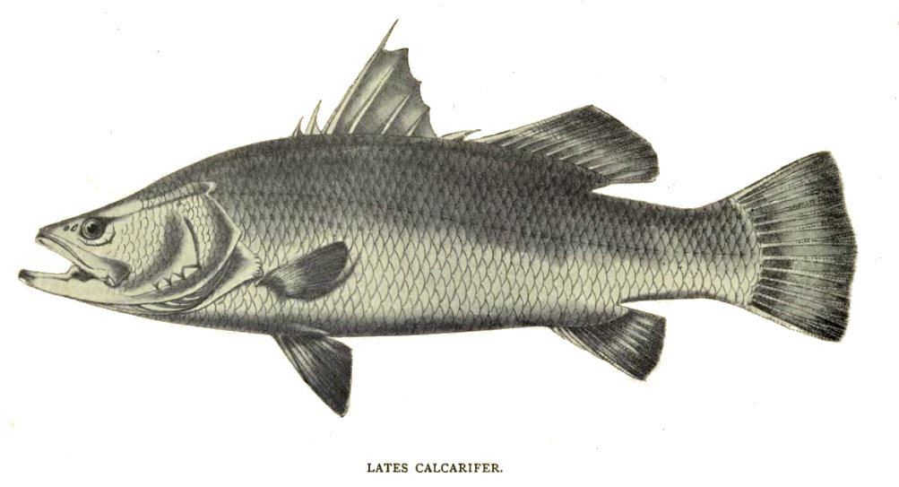 Lates calcarifer (Bloch, 1790)